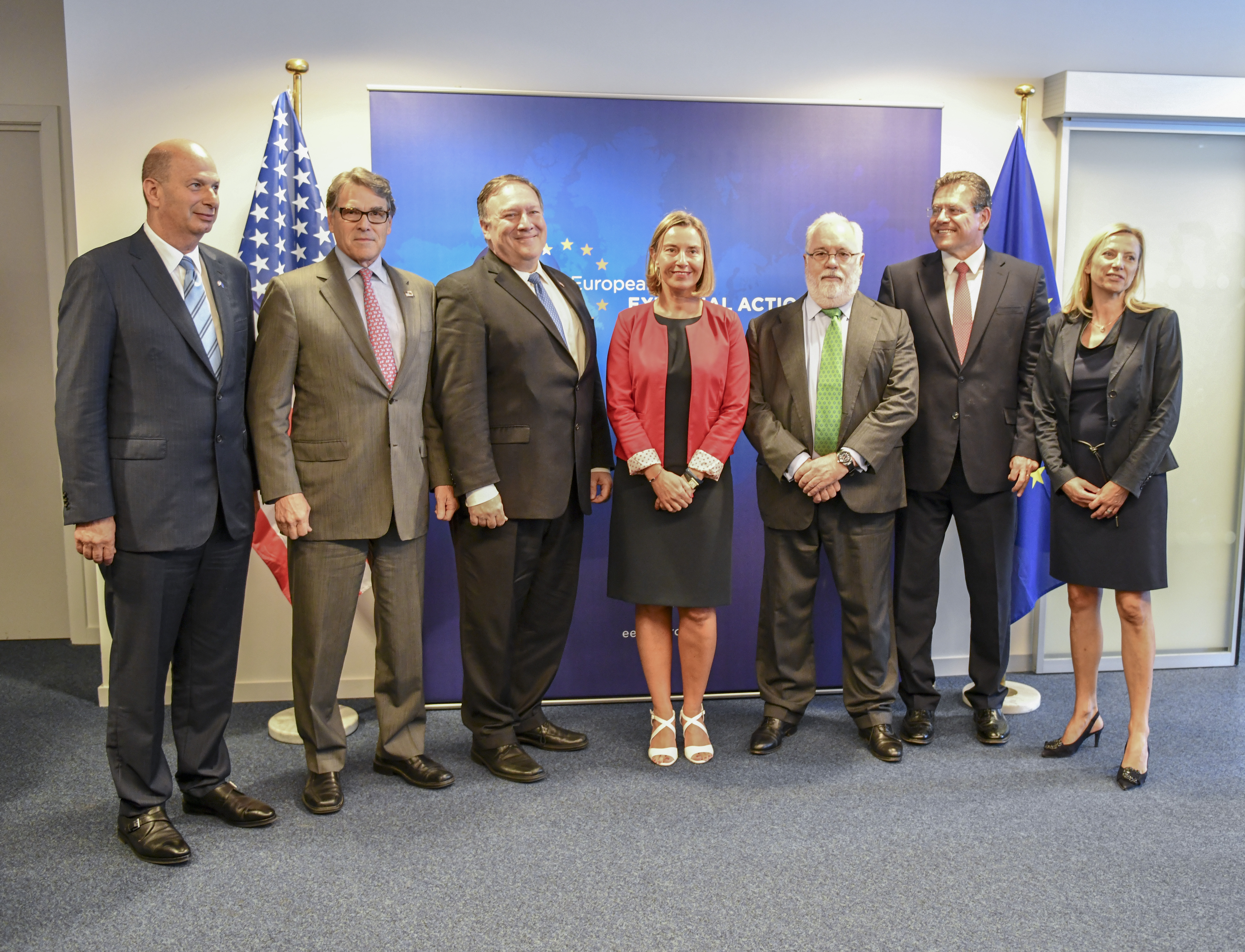 U.S. Secretary of State Michael R. Pompeo poses for a photo with U.S. Secretary of Energy Rick Perry, Assistant Secretary for the Bureau of Energy Resources Francis Fannon and U.S. Representative to the European Union Gordon Sondland and European Union High Representative and Vice President Federica Mogherini at the United States EU Energy Council meeting in Brussels, Belgium on July 12, 2018. [State Department photo/ Public Domain]